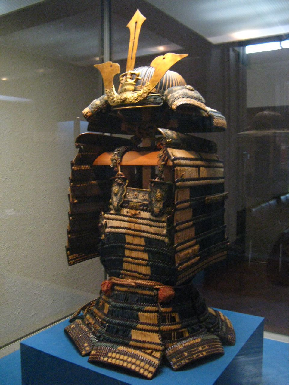 Antique Japanese (samurai) dou maru gusoku, Tokyo National Museum